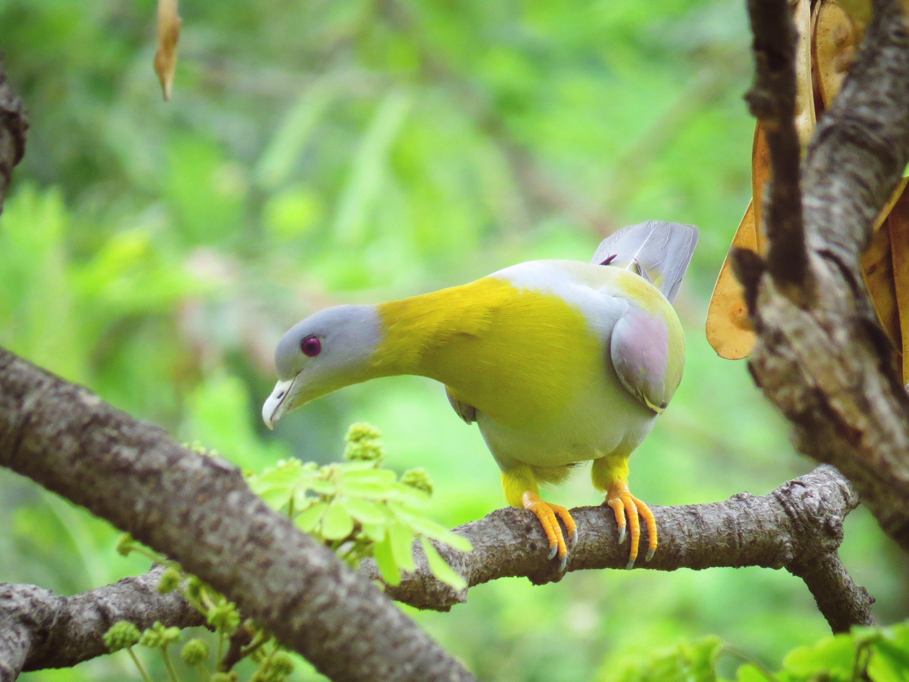 Yellow-footed Green Pigeon at Sanjay Gandhi Jaivik Udyan, Patna